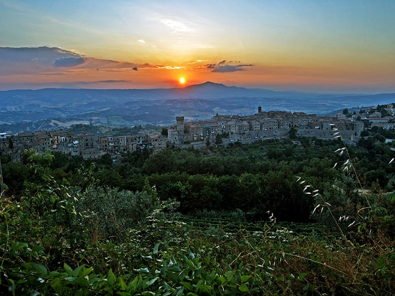 landascape ficulle